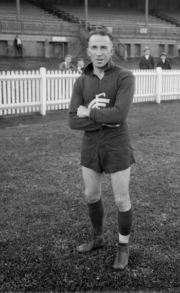 Jack Carney from 1936-1941